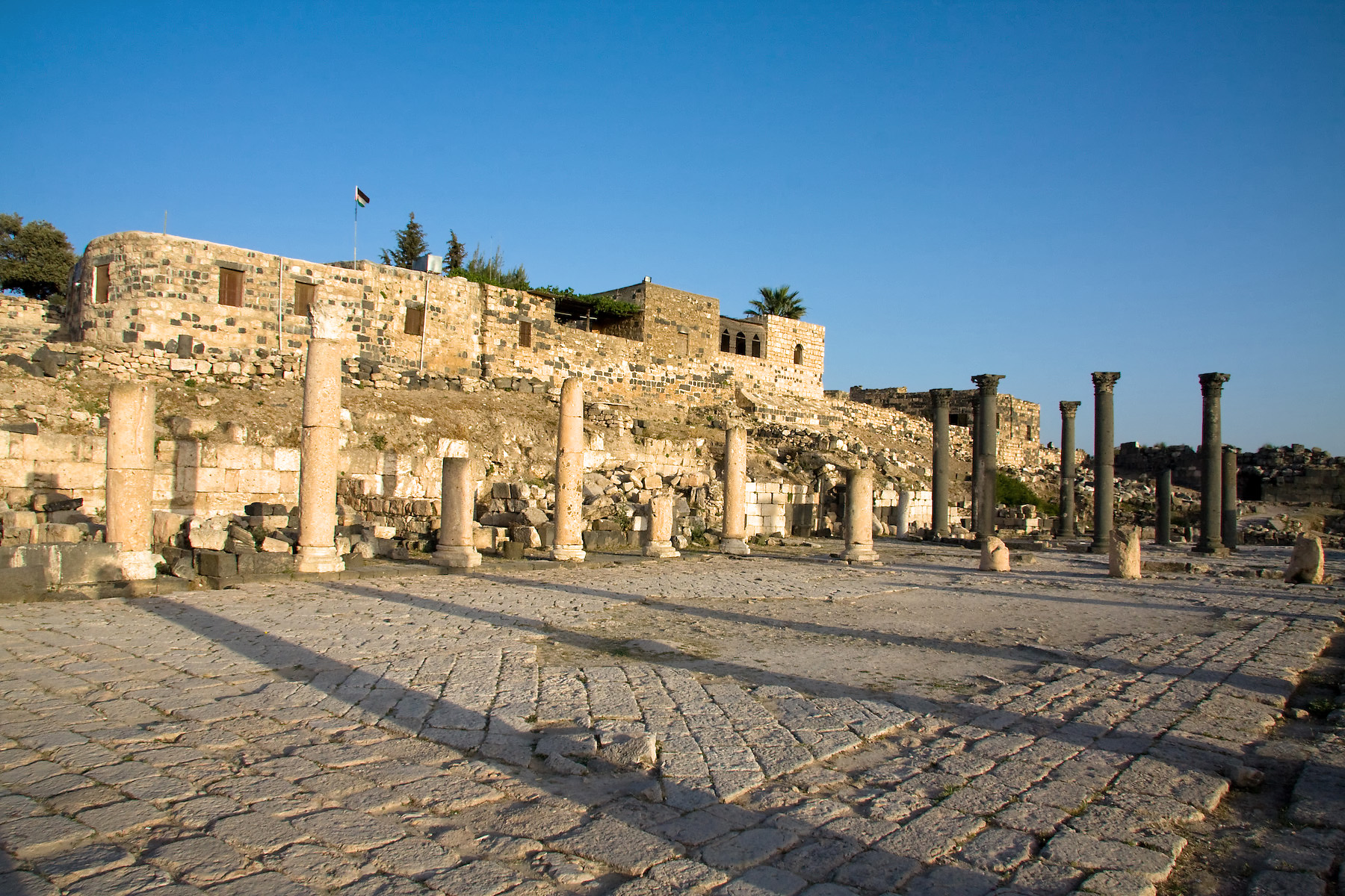 Byzantine Church terrace at Umm Qais, Jordan.